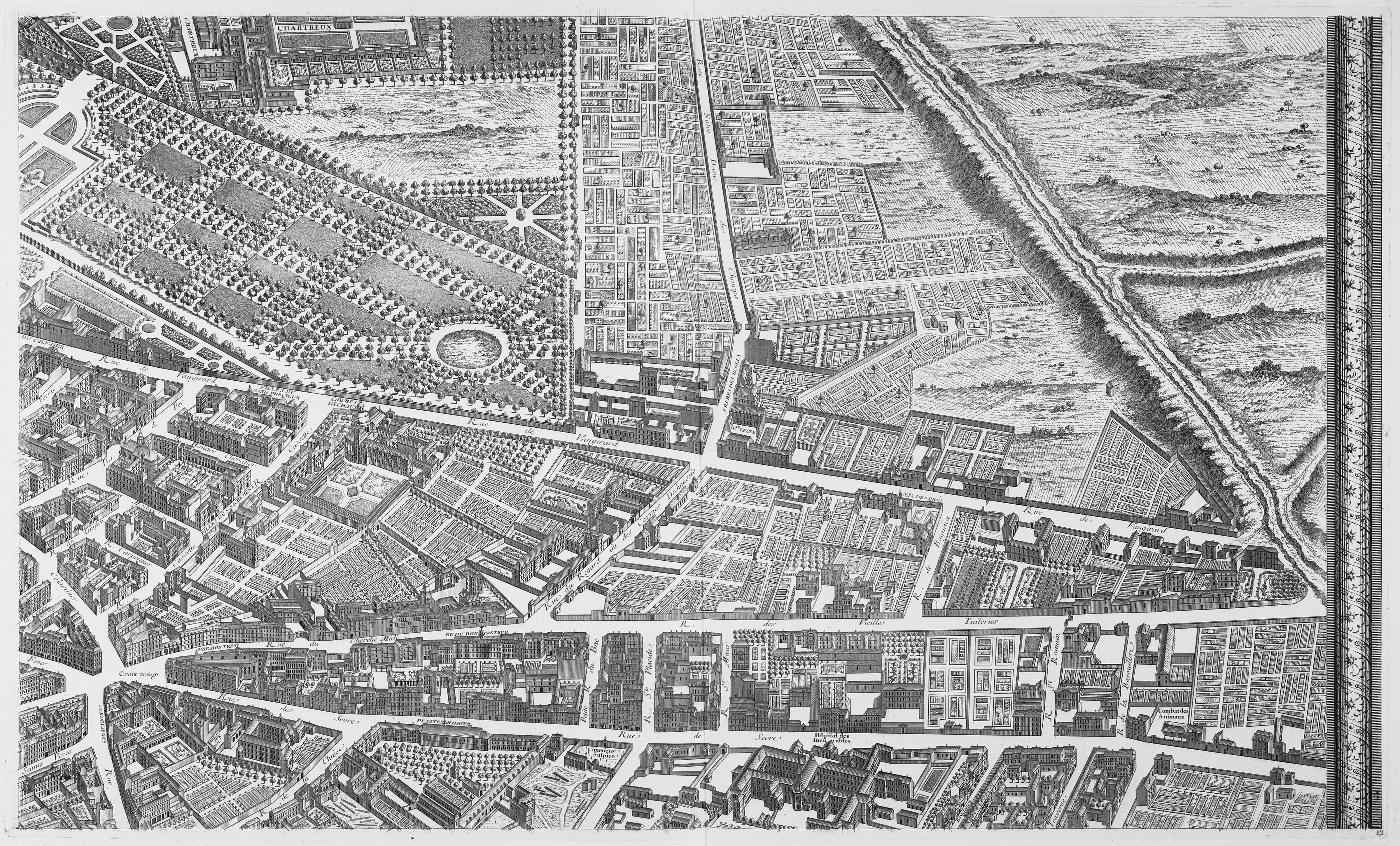 Plate 12 of the Turgot map of Paris